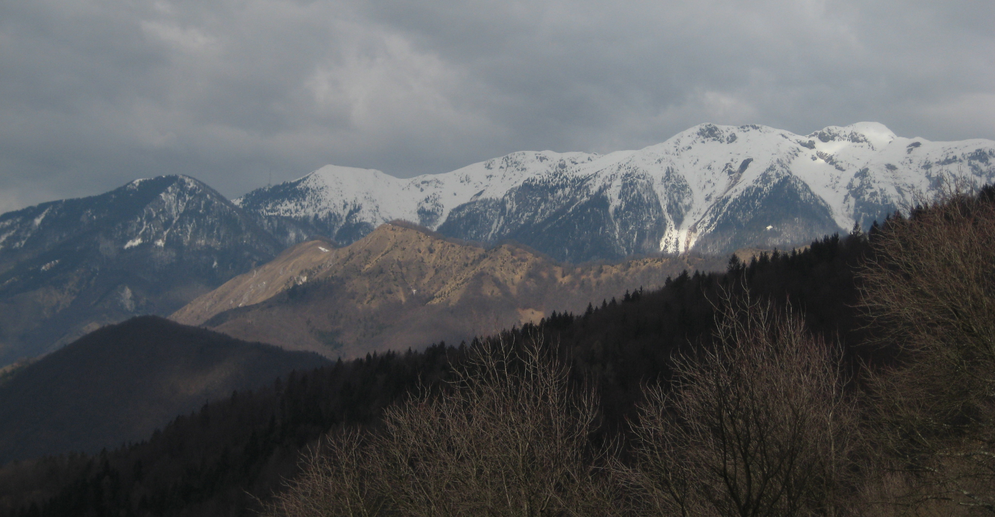 Kamniški vrh (=sunny part), mountain in Slovenia